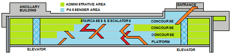 HOWRAH METRO STATION LAYOUT